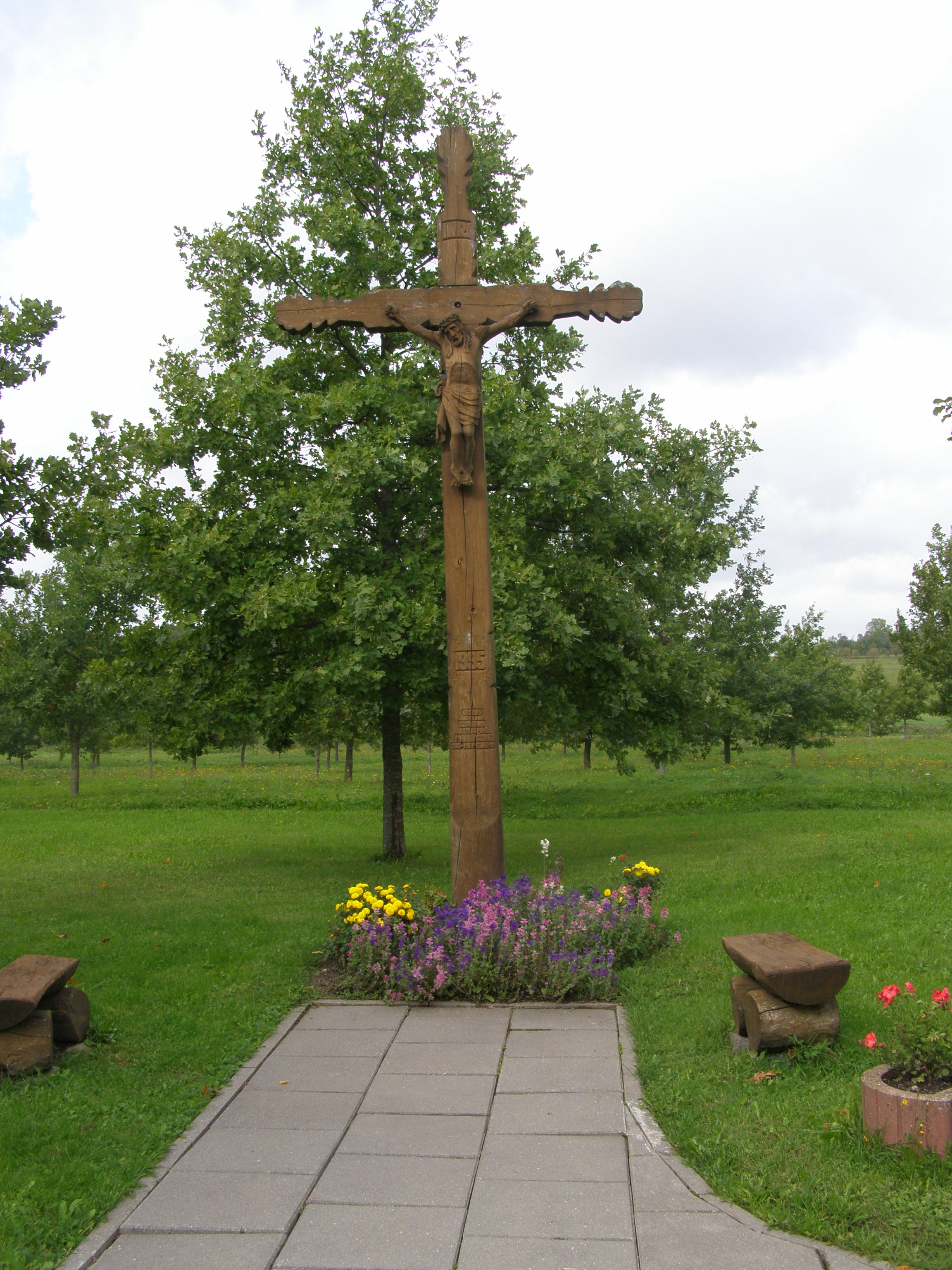 Nasrėnai cross, Kretinga district, LithuaniaLietuvių: Kryžius vyskupo M. Valančiaus ąžuolyne, Kretingos rajonas, Lietuva